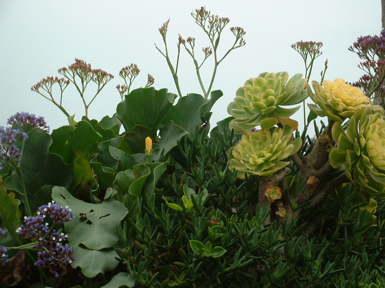 Plants professionally landscaped Newport Beach, California